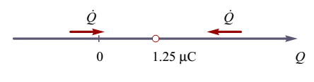 Retrato de fase de um circuito RC